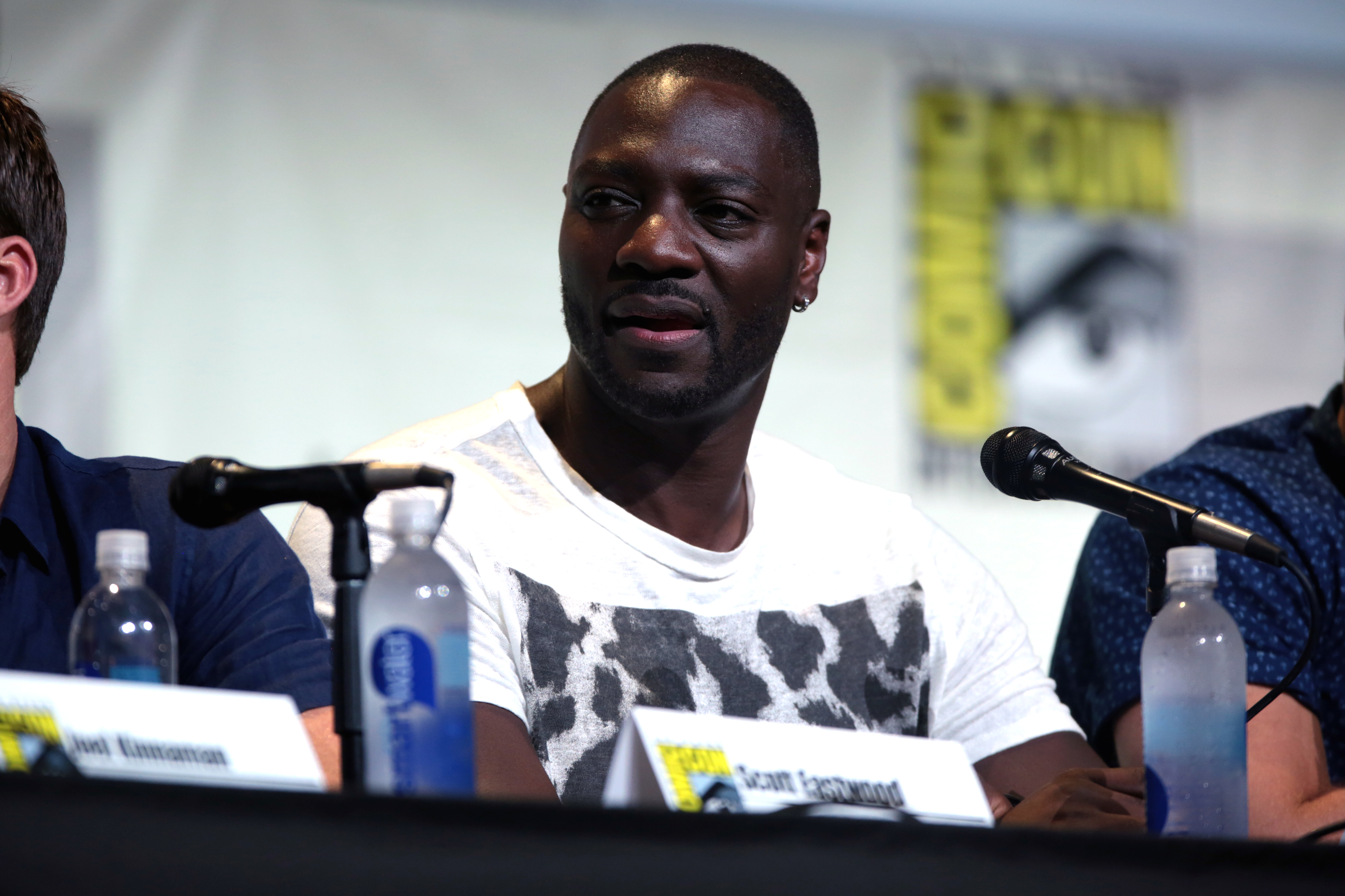 Adewale Akinnuoye-Agbaje speaking at the 2016 San Diego Comic Con International, for "Suicide Squad", at the San Diego Convention Center in San Diego, California.